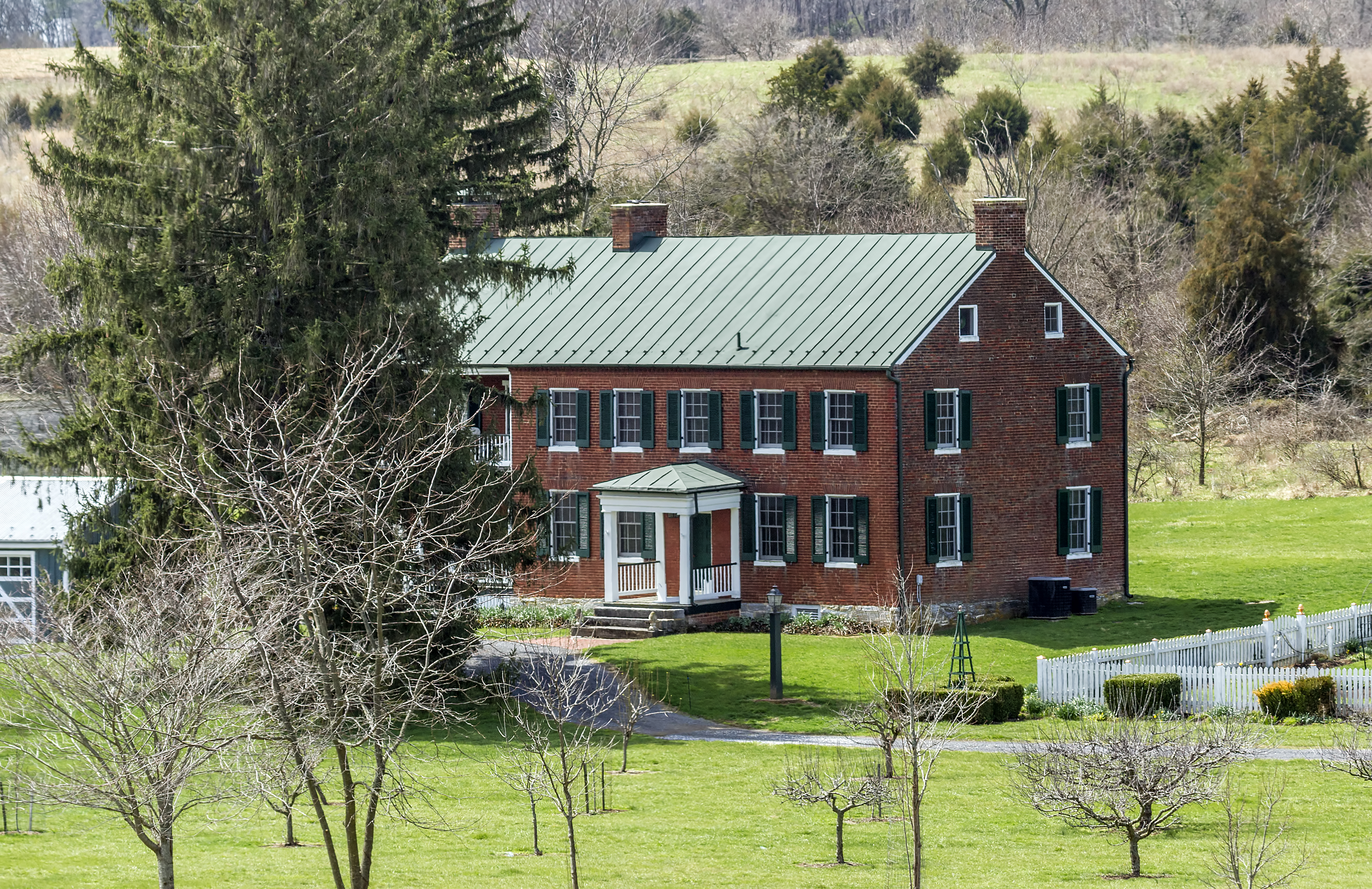 The Hoffman Farm near Keedysville, Maryland, USA